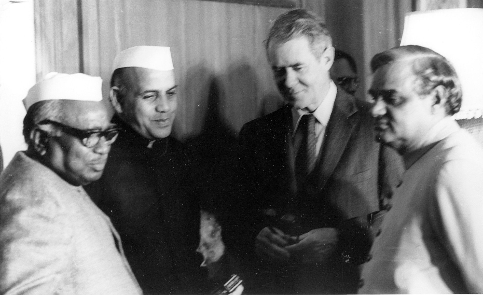 Discussions began today between officials of the Government of India and U.S. President Jimmy Carter and his party. Seen in conversation prior to formal discussion are (L to R) Defense Minister Jagjivan Ram, Minister of Commerce Mohan Dharia, U.S. Secretary of State Cyrus Vance, and Minister of external Affairs A.B. Vajpayee. (New Delhi, January 2, 1978)